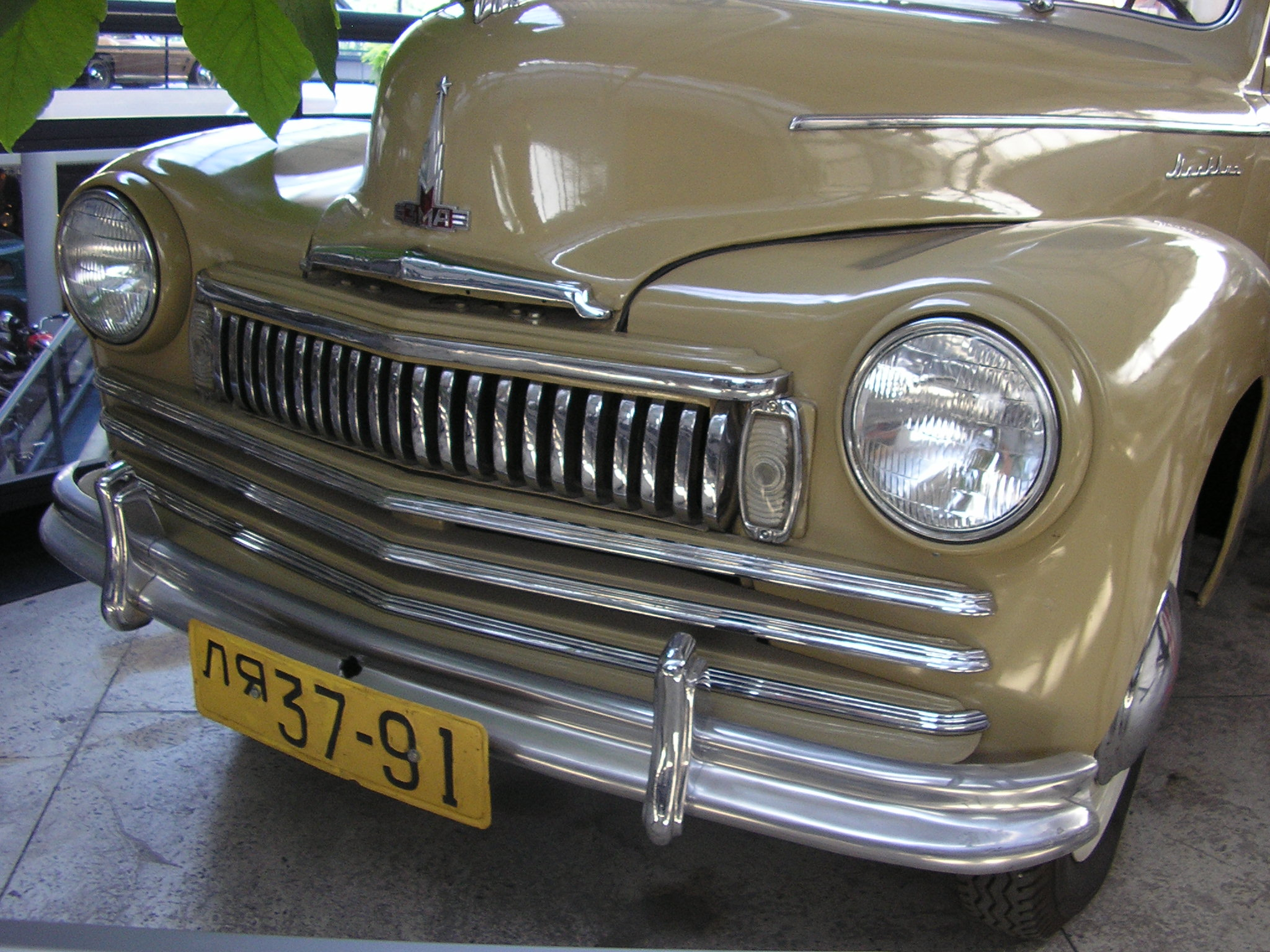 A 1949 Moskvich 401/424E. It weighs 880 kg (cub weight I guess) and is powered by a 1074 cc sidevalve inline-4 giving 26 hp and a top speed of 90 km/h.